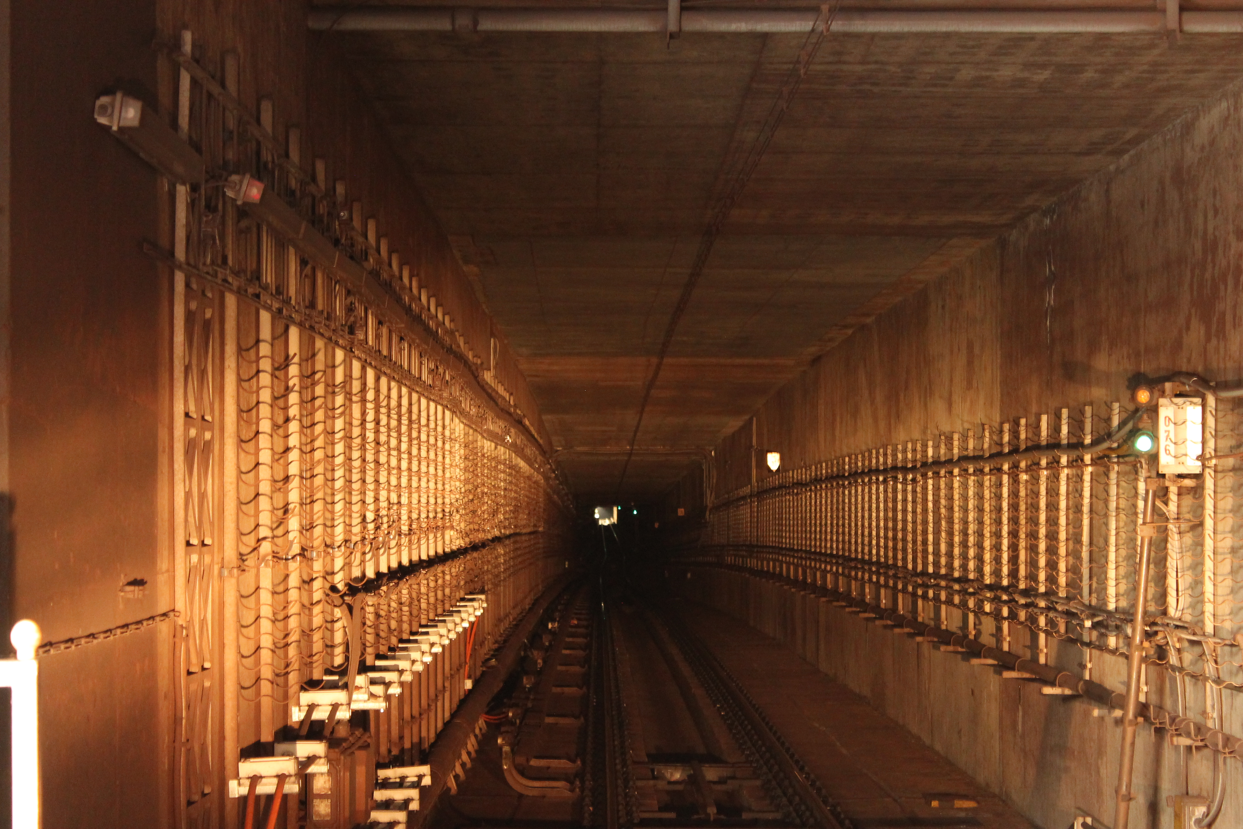 Tunnel between metro stations Hůrka and Nové Butovice, Prague; Only place in the Prague metro network, where is possible to look directly from one station to another one